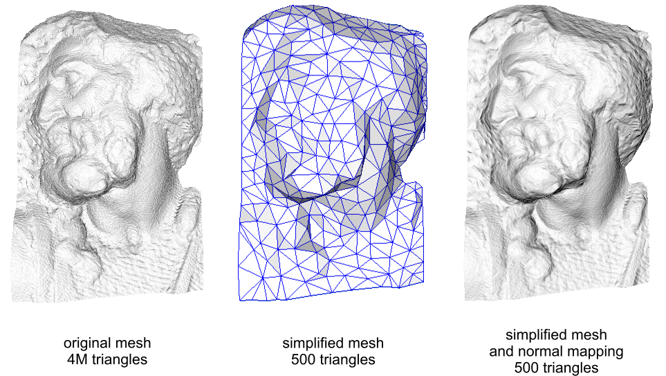 Example of normal mapping for recreating the details lost during a drastic simplification